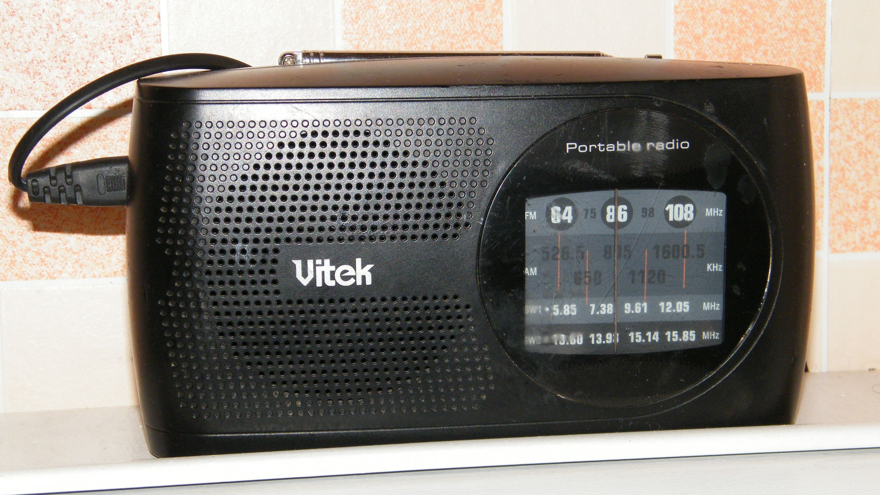 Радиоприемник Vitek